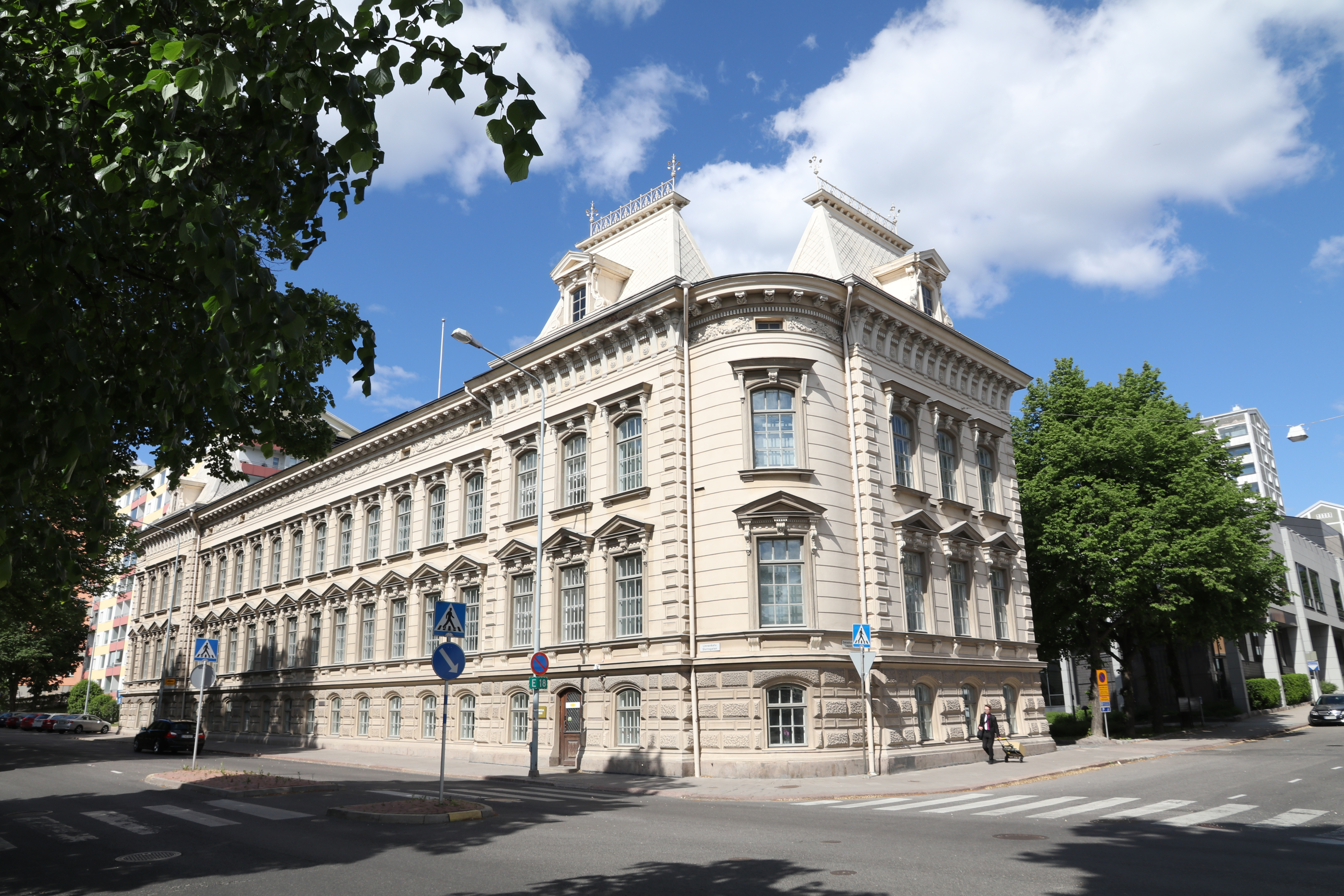 Turku courthouse. Varsinais-Suomi district court.